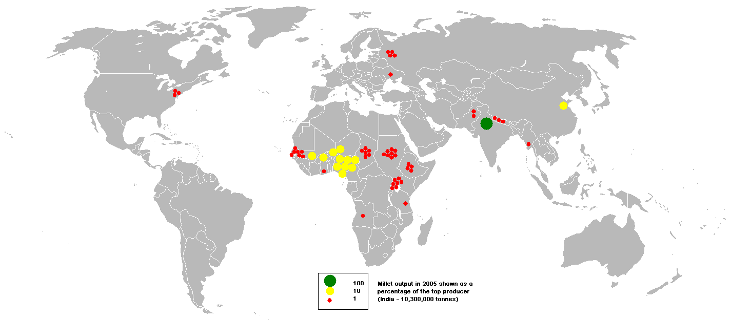 This bubble map shows the global distribution of millet output in 2005 as a percentage of the top producer (India - 10,300,000 tonnes). This map is consistent with incomplete set of data too as long as the top producer is known. It resolves the accessibility issues faced by colour-coded maps that may not be properly rendered in old computer screens. Data was extracted on 9th June 2007 from Based on :Image:BlankMap-World.png